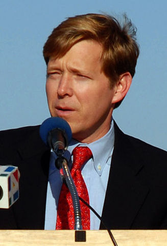 JACKSONVILLE, Fla. (April 13, 2007) - Jacksonville Mayor John Peyton addresses invited guest at the groundbreaking ceremony for the state-of-the art facility that will provide space for five P-3C "Orion" squadrons and one C-130 "Hercules" logistics squadron. The hangar will house approximately 33 P-3 and four C-130 aircraft and accommodate more than 1,600 personnel. The 277,000 sq. ft. hangar will support the Base Realignment and Closure (BRAC) initiative to bring additional squadrons to NAS Jacksonville following the closure of NAS Brunswick, Maine. Completion of the hangar is scheduled for the summer of 2009, in time for the first P-3C squadron from NAS Brunswick to relocate here. U.S. Navy photo by Mass Communication Specialist 1st Class Toiete Jackson (RELEASED)